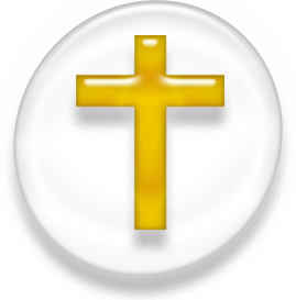 Symbol of Christianity (Latin Cross), white and golden version.